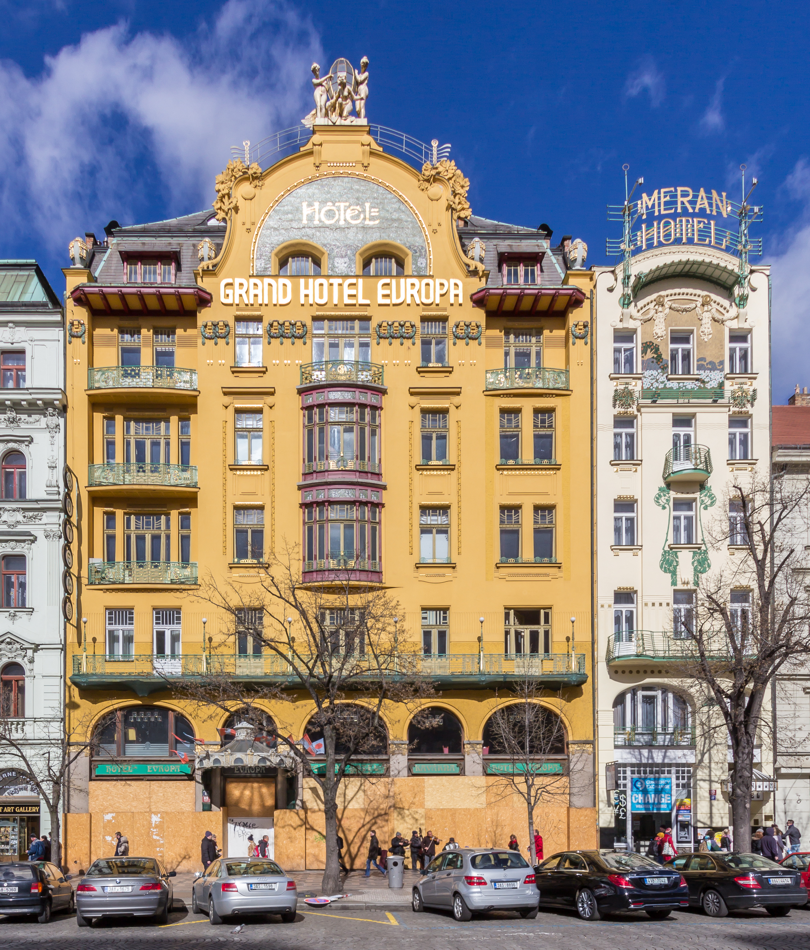 Grand Hotel Europa and Meran Hotel, Wenceslas Square, Prague